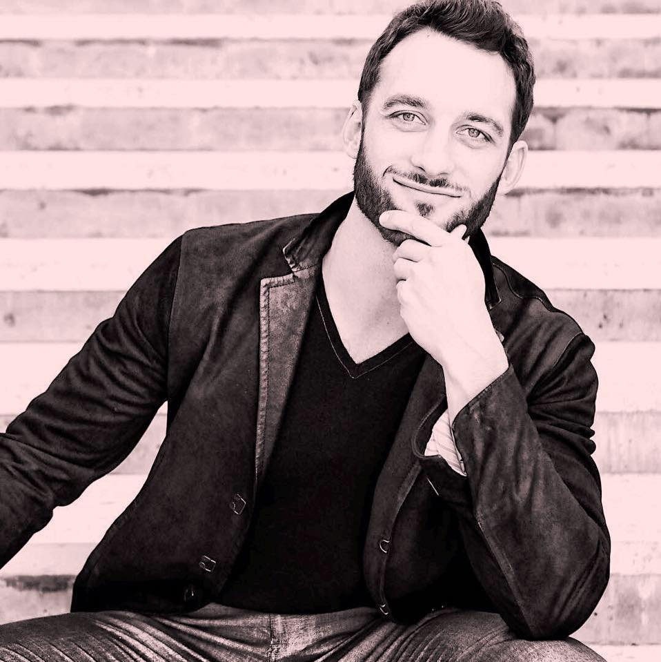 Chad Mureta headshot black & white